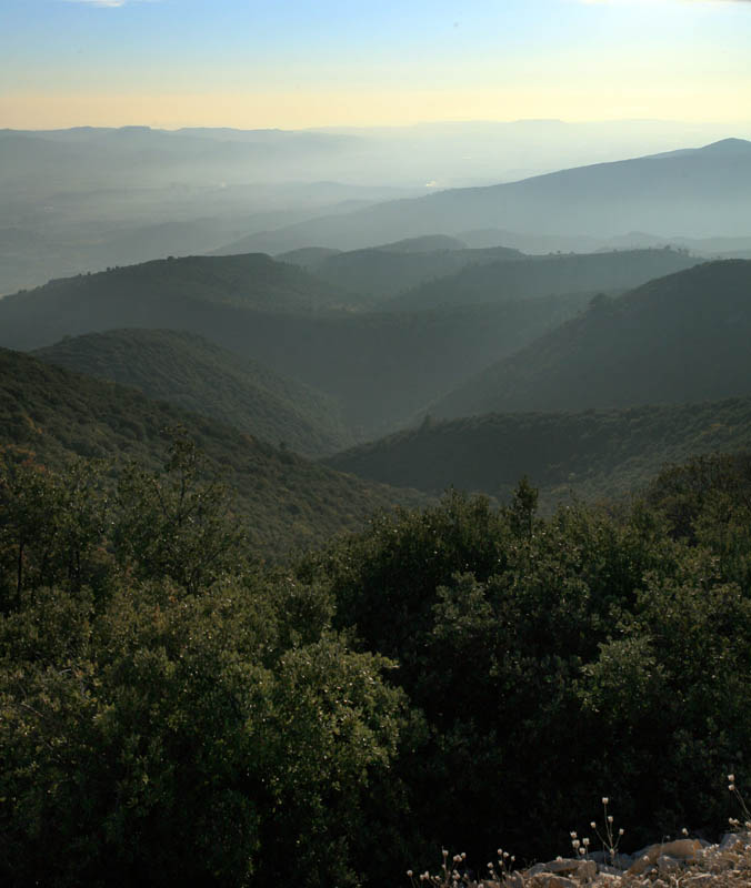 Luberon (84), France, view at south from the top